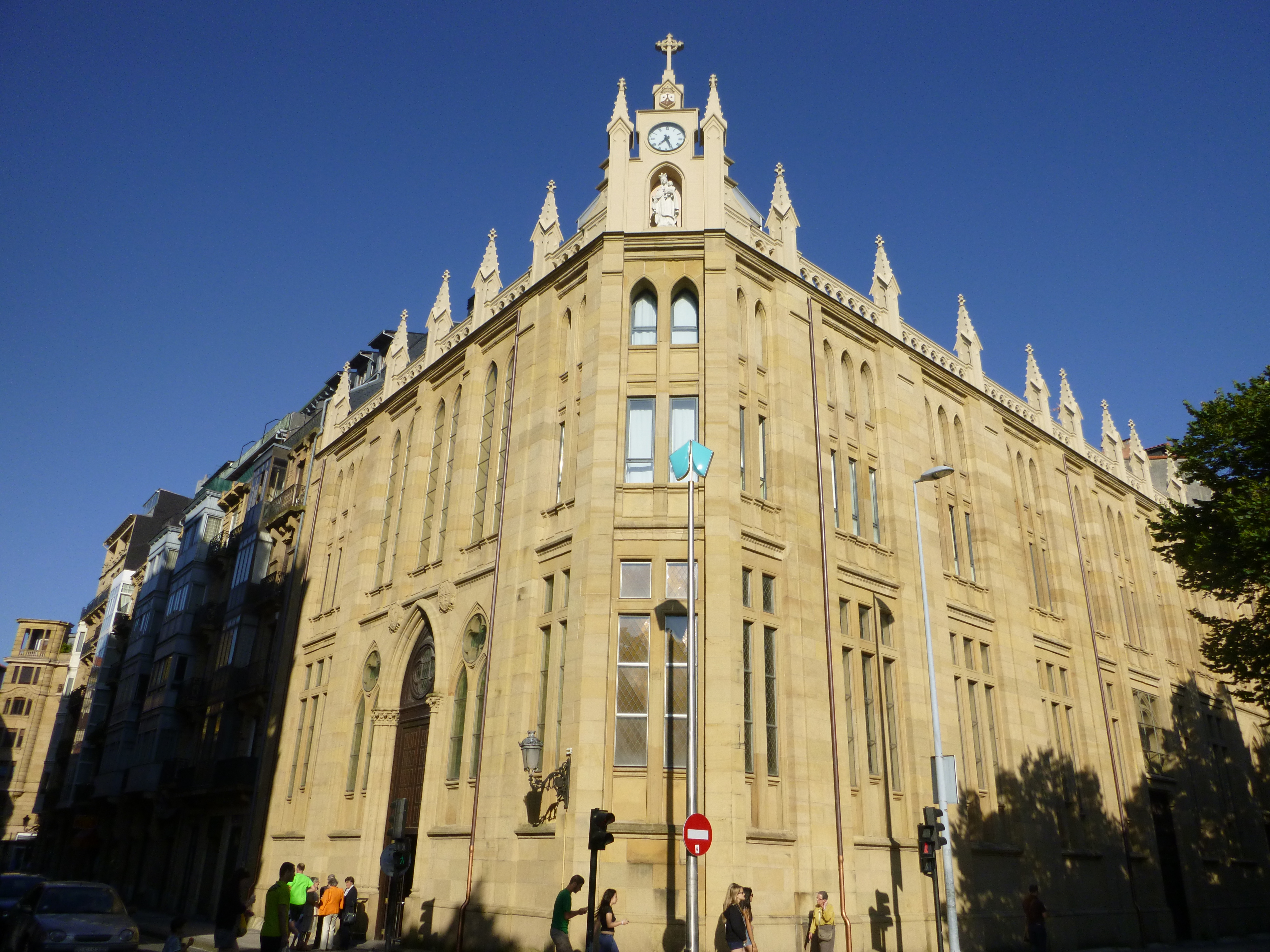 Church of Carmelite Fathers